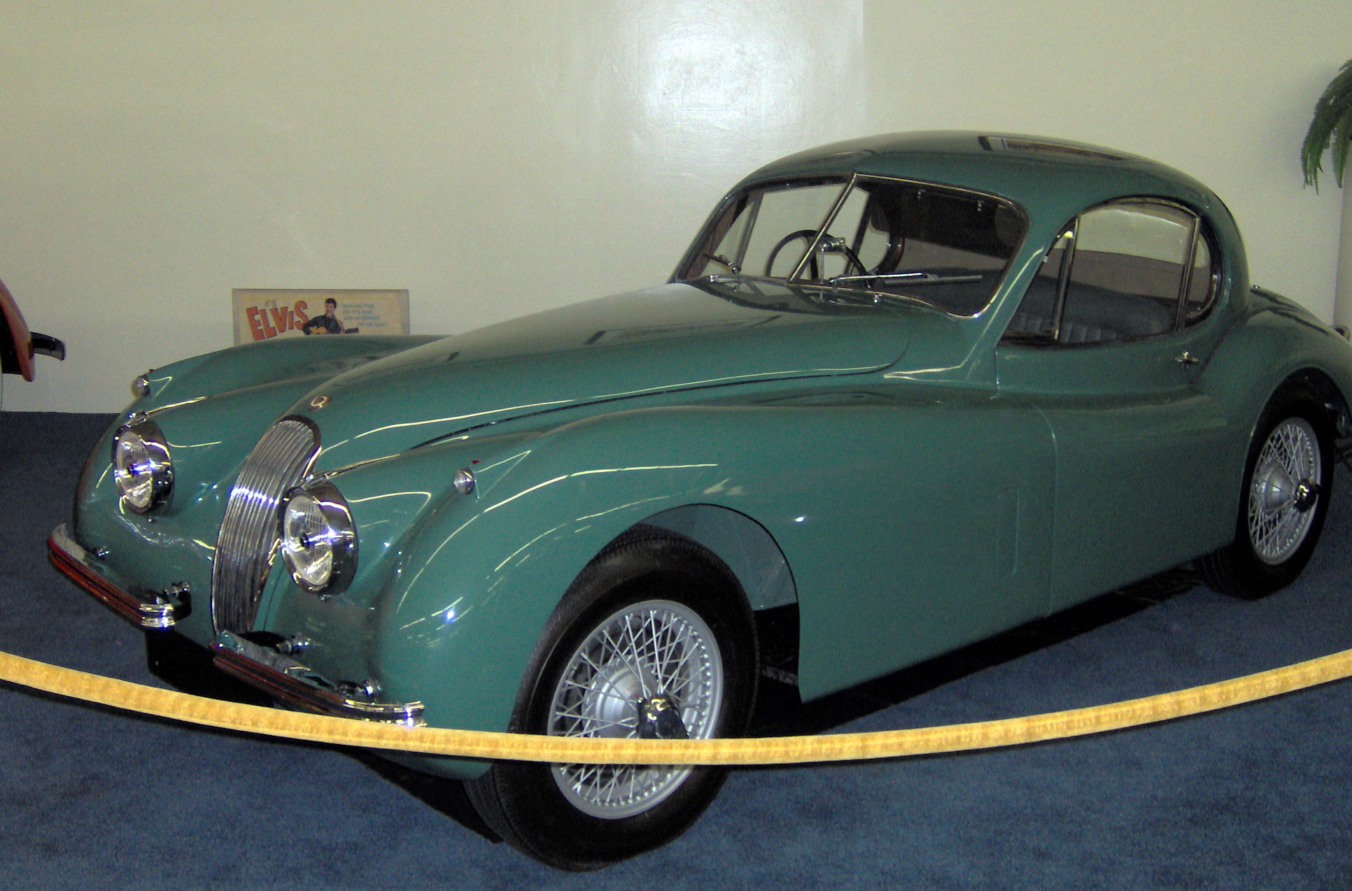 1954 Jaguar XK120 Fixed-Head Coupe